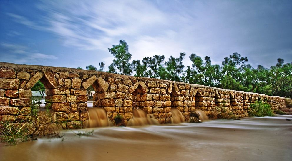 it's good